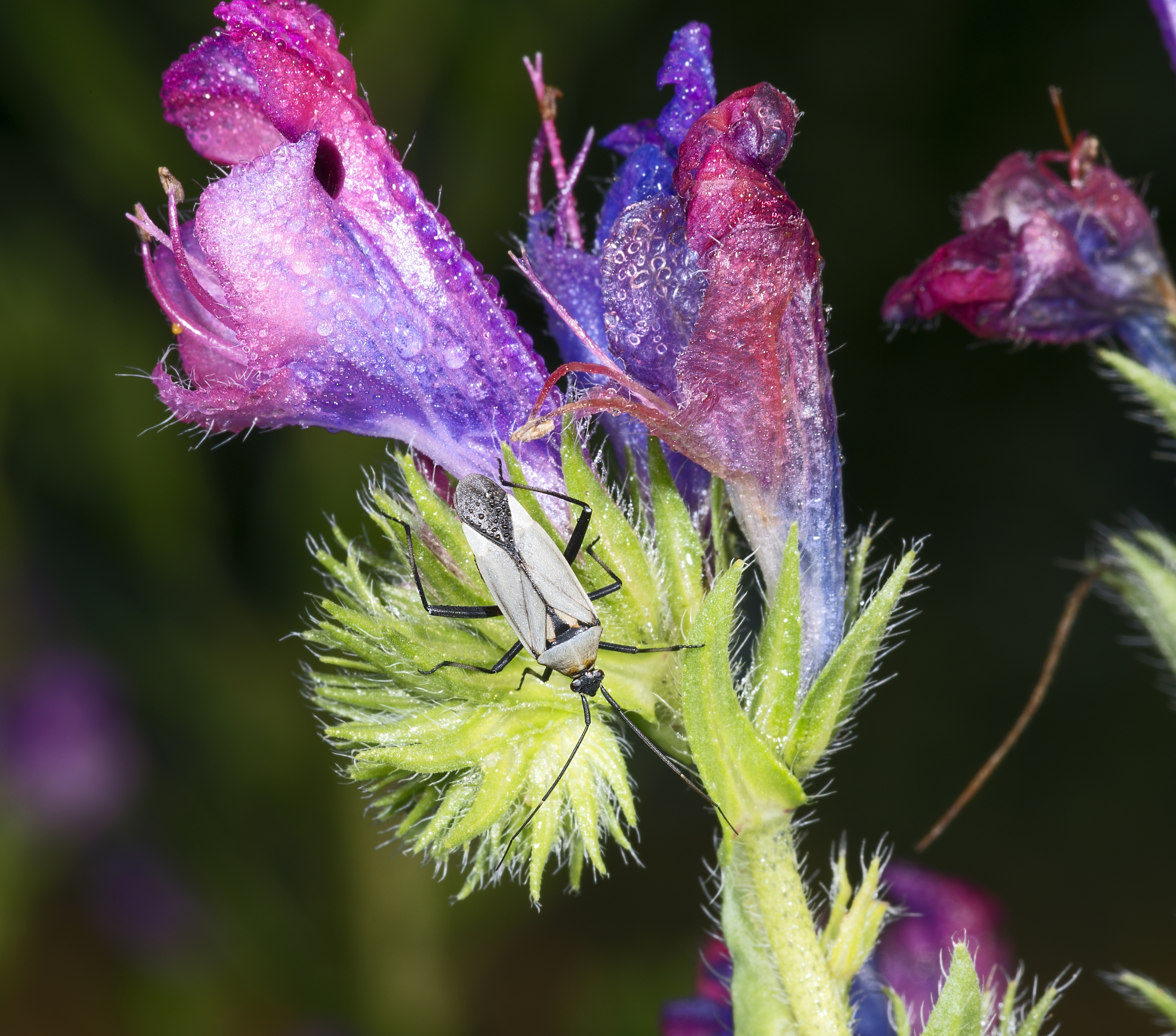 Calocoris nemoralis forma bimaculata on Echium vulgare